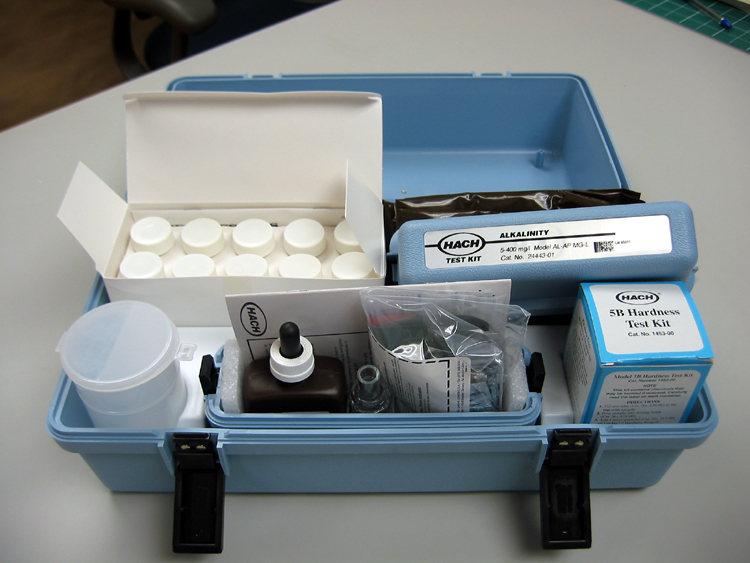 Hach Classroom Drinking Water Testing Kit Blue plastic case with black handle and two fasteners on case front; case opens to reveal a white plastic insert with indentations for individual testing kits; the upper left corner has the aerobic bacteria kit in a white cardboard box; box has eight plastic bottles with white screw tops; bottles have multi-colored indicator plates lodged in them; bottles sit in a white plastic insert; kit comes with instruction pamphlet; in the bottom left hand corner of the case is a plastic graduated cylinder with a pop lid; in the bottom right hand corner is the hardness kit; in the cardboard box is a plastic bottle with titrant solution, a glass bottle with black plastic stir rod, and a powder reagant in a glass bottle; in the middle of the case bottom is the alkalinity kit; kit is in a blue plastic case secured by two black plastic fasteners on each side; top comes completely off; kit includes instruction manual, glass bottle, glass test tube, brown plastic bottle of sulfuric acid, and packets of phenolphthalein and red indicator powders; in the upper right hand corner of the case are four brown plastic bags with materials for iron, nitrate, chlorine, and pH testing; overall kit comes with two instruction books. Kit designed and sold by the Hach Company.